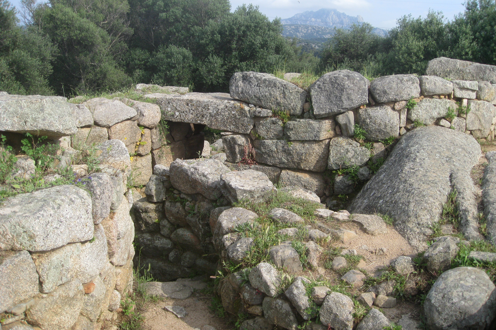 Nuraghe Albucciu near Arzachena, Province Olbia-Tempio, Sardinia, Italy